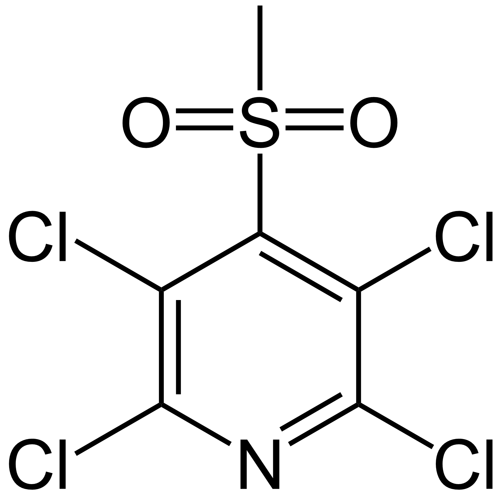 Skeletal formula of davicil